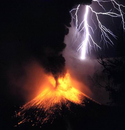 Eruption and volcanic lightning of Mount Rinjani, Indonesia, 1994